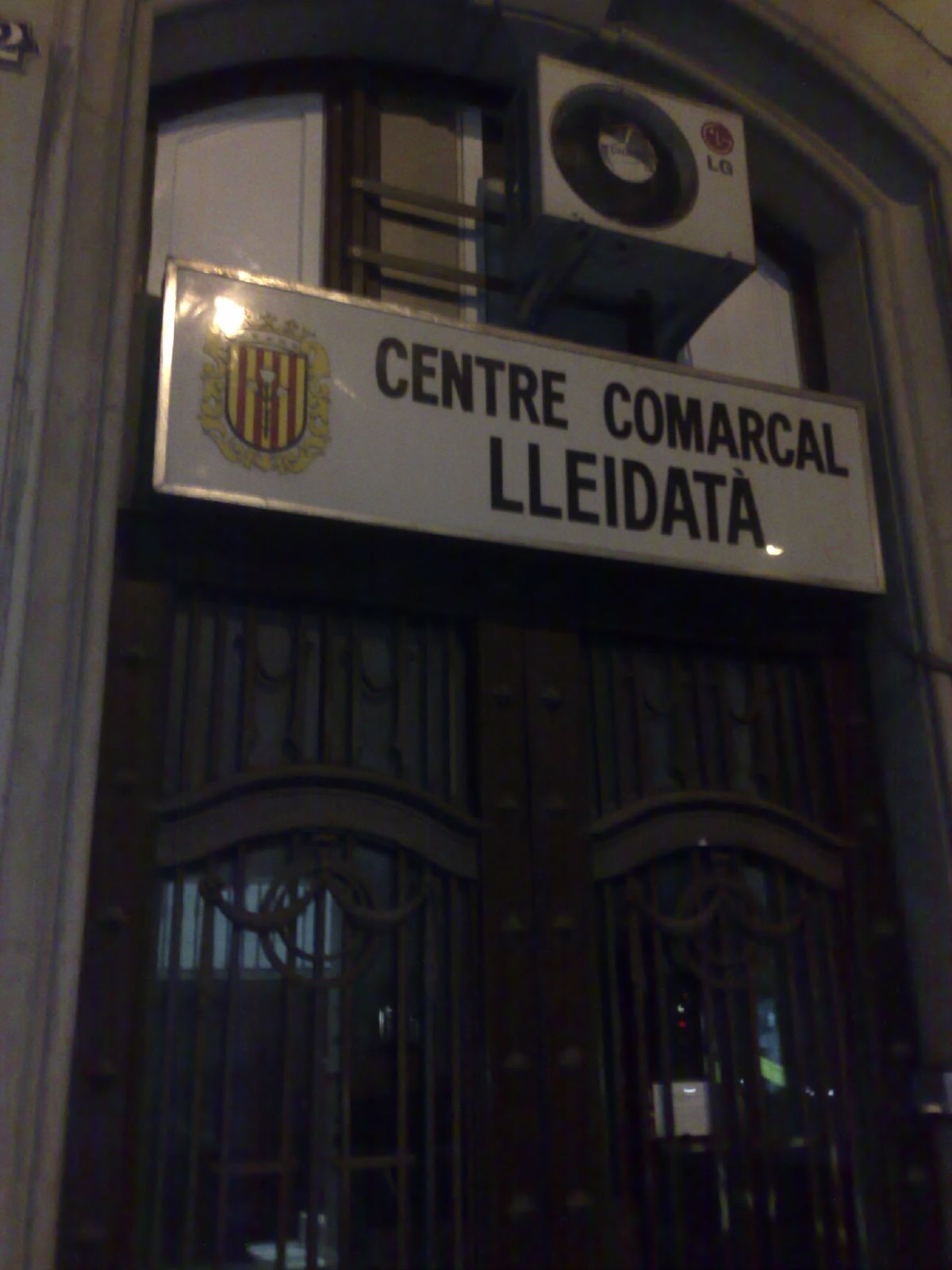 Centre Comarcal Lleidatà in Barcelona